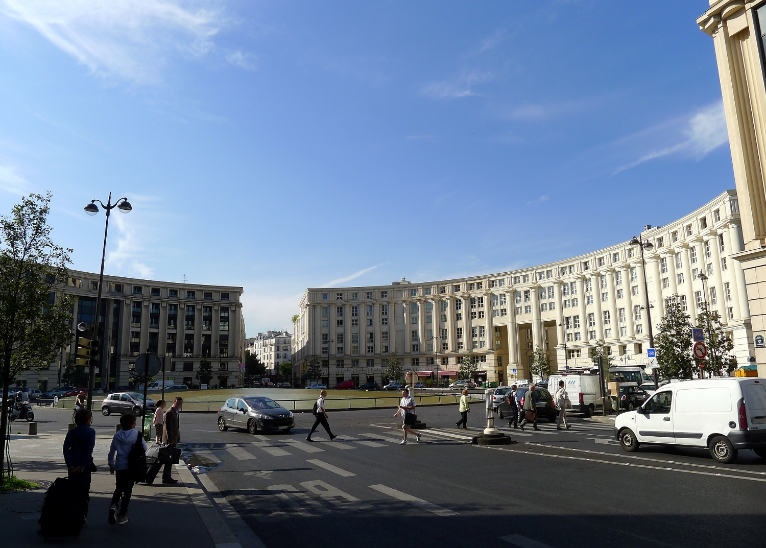 Catalogne place - Paris